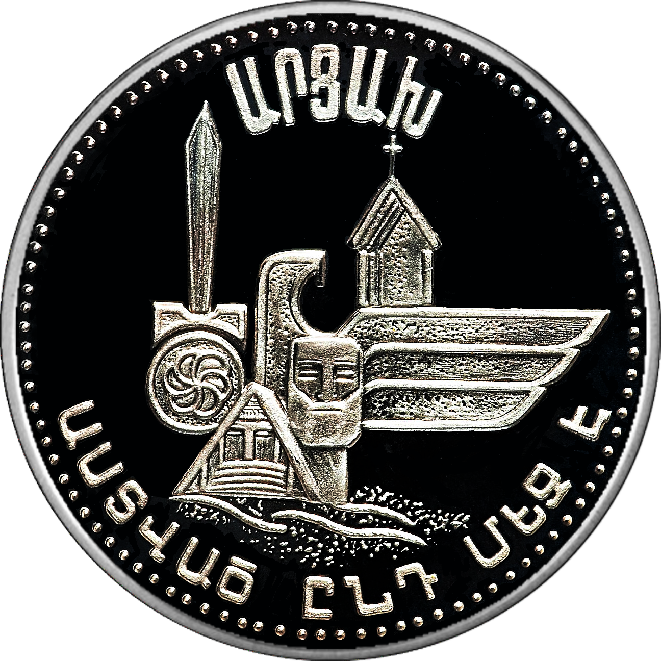 Commemorative coins of Armenia 1994 - Artsakh - 25 AMD - Silver 900